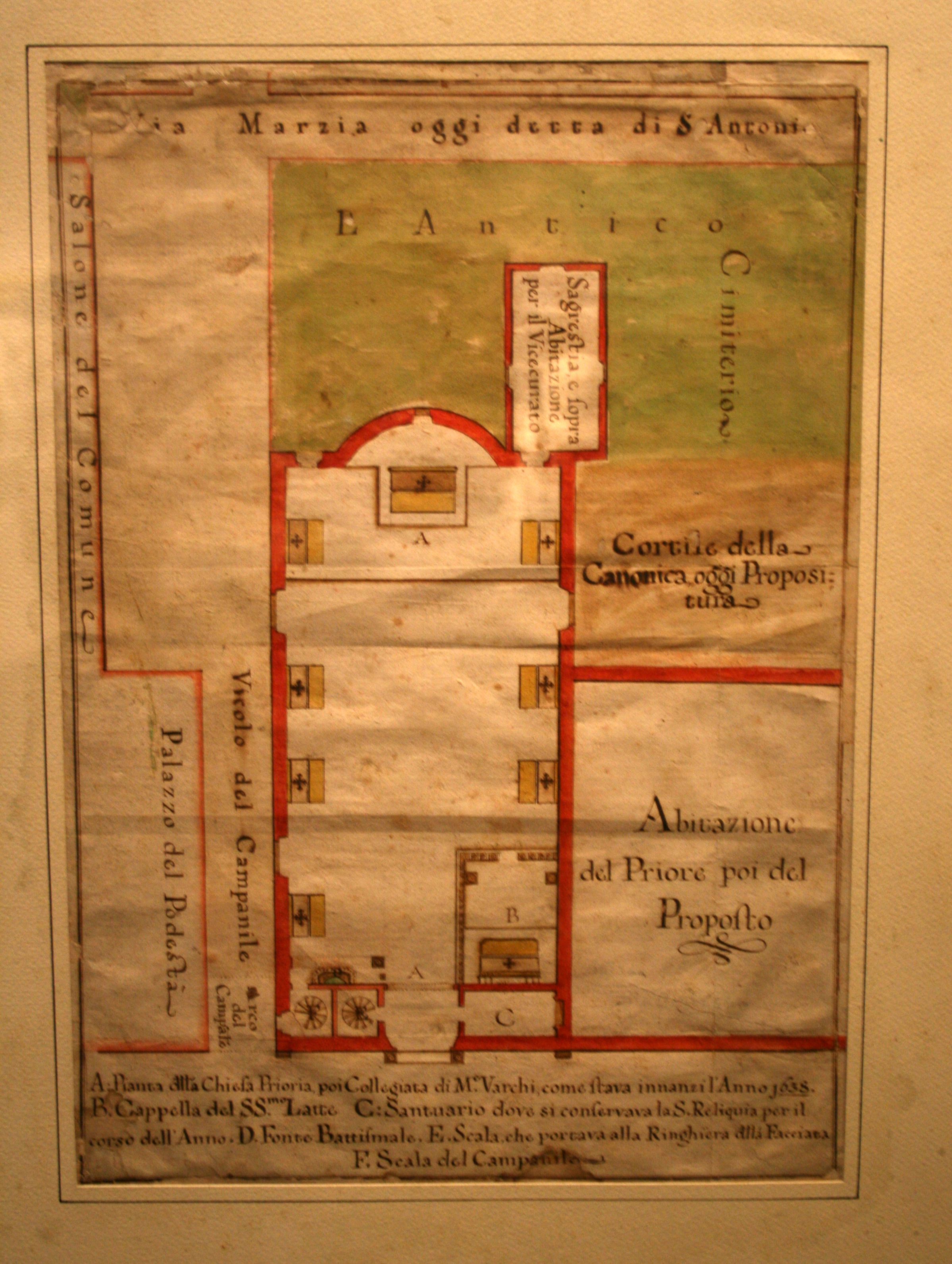 Old map of the Collegiate Church of San Lorenzo in Montevarchi